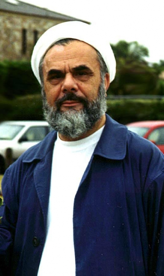 Cosan, In Australia 1999